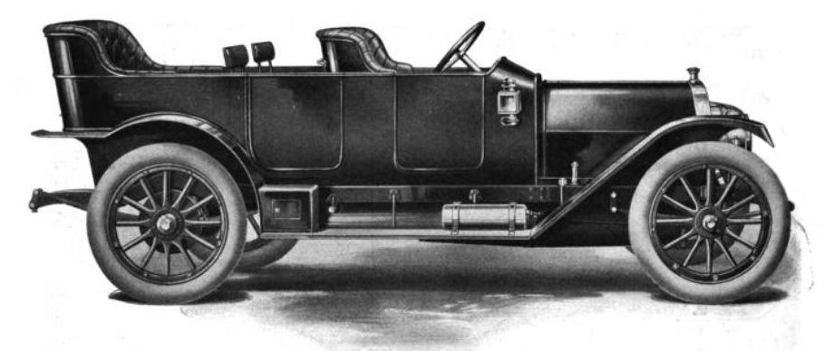 An image of a 1911 Speedwell Model F Special Seven Passenger Touring Car from an advertisement in Motor Age From the Google Books Archive: Title Motor age, Volume 18 Publisher Class Journal Co., 1910 Original from the New York Public Library Digitized Jun 24, 2006